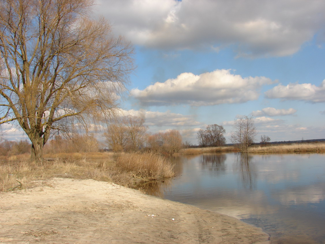 Bityug River in spring